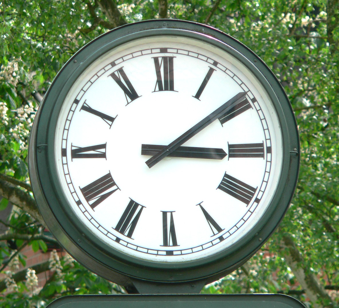 Clock in Bad Salzdetfurth, Germany, Badenburger Strasse